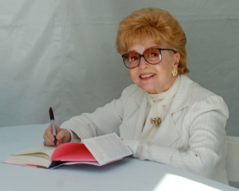 Debbie Reynolds at the LA Festival of Books.